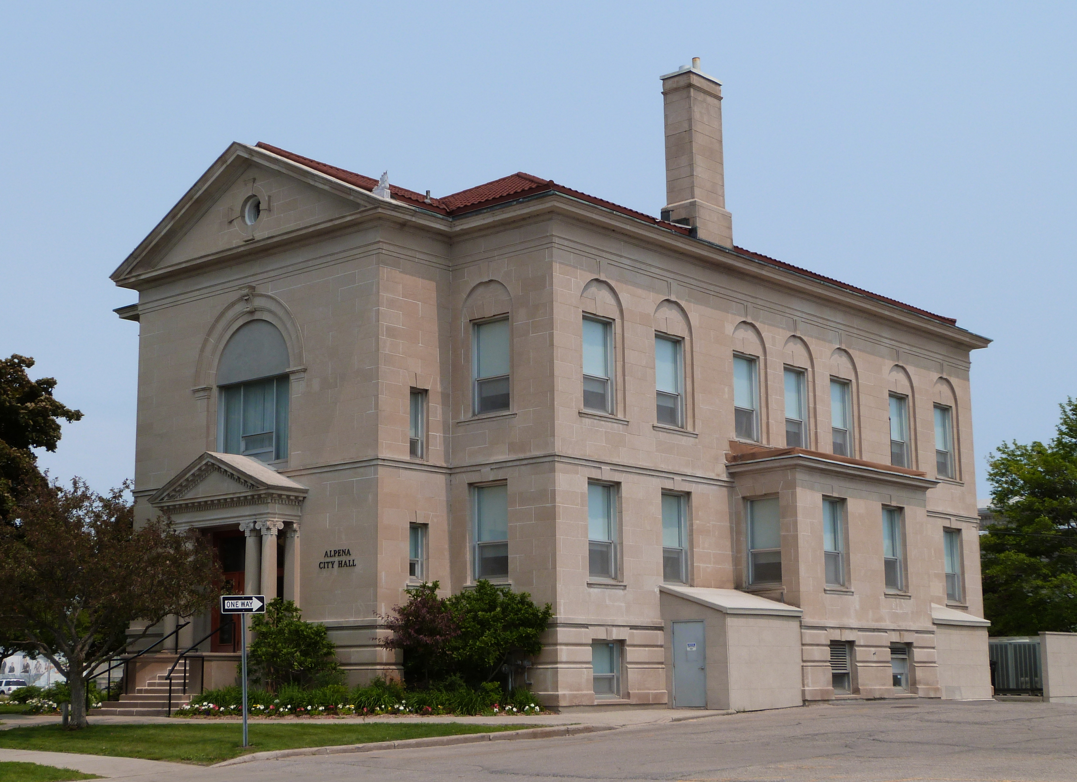 City Hall, Alpena, Michigan, United States.